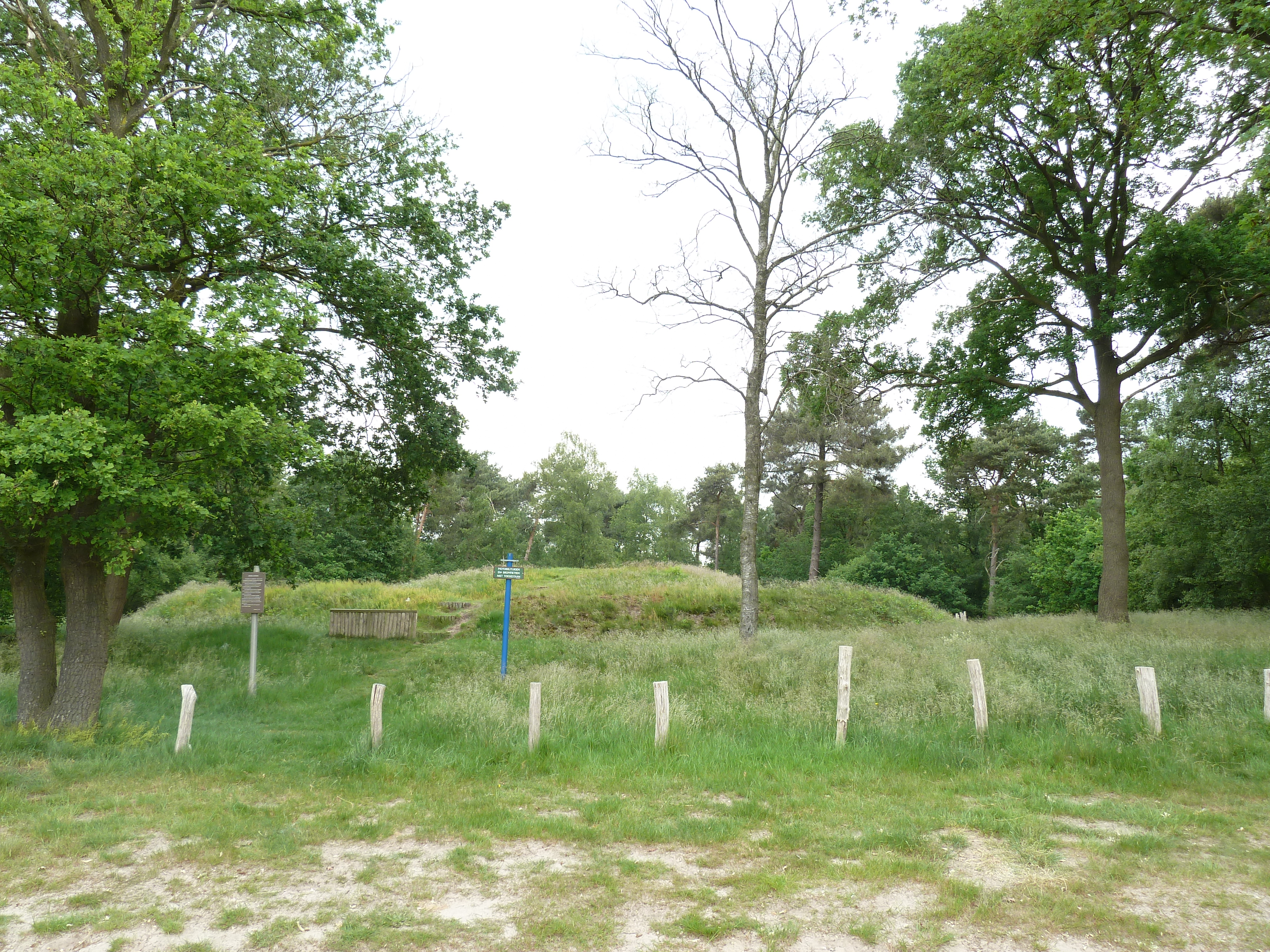 Zwarte Berg, Hoogeloon, Bladel, the Netherlands